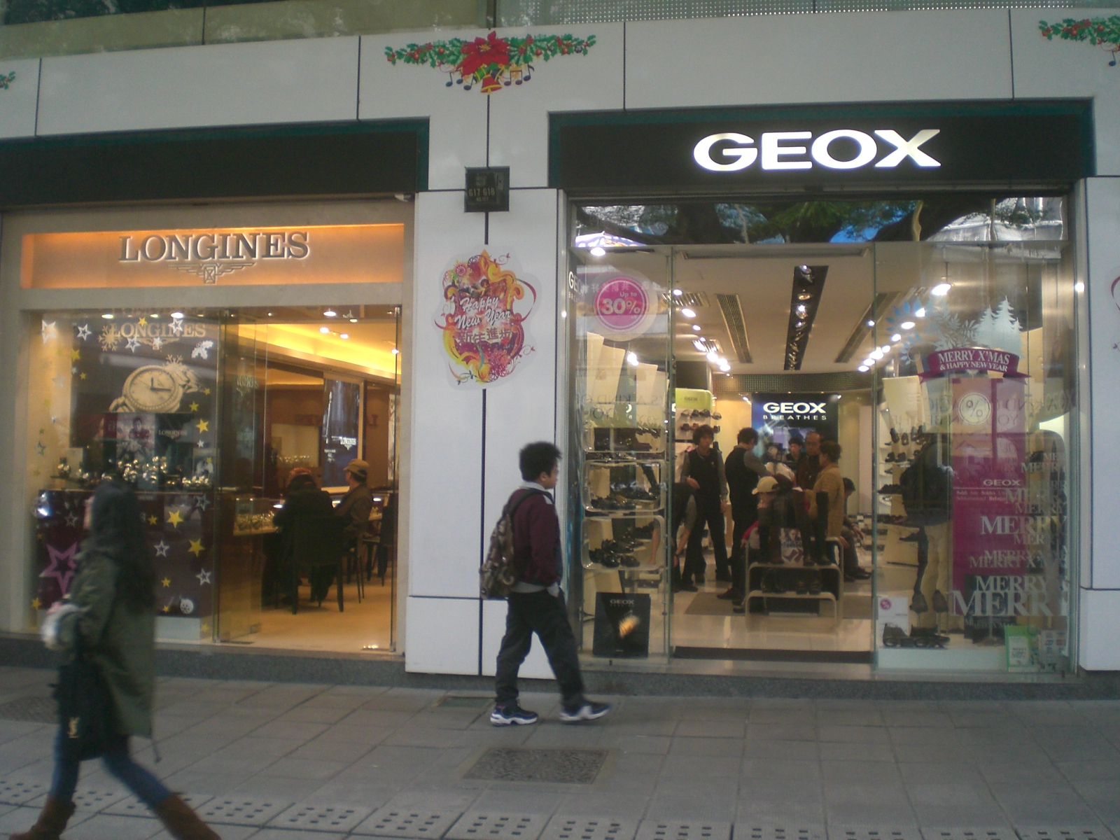 尖沙咀柏麗購物大道